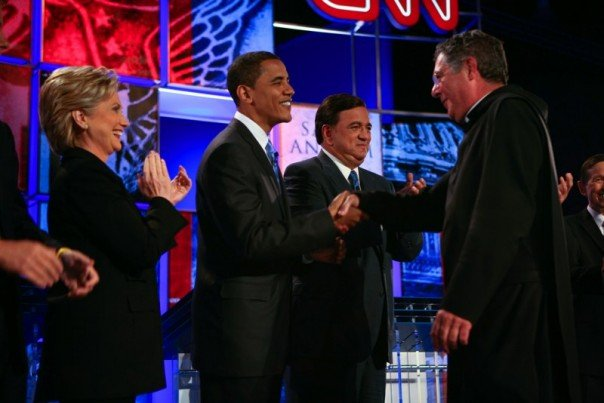 This is an image taken by me, a private / college photographer to photograph the debate held at Saint Anselm College.